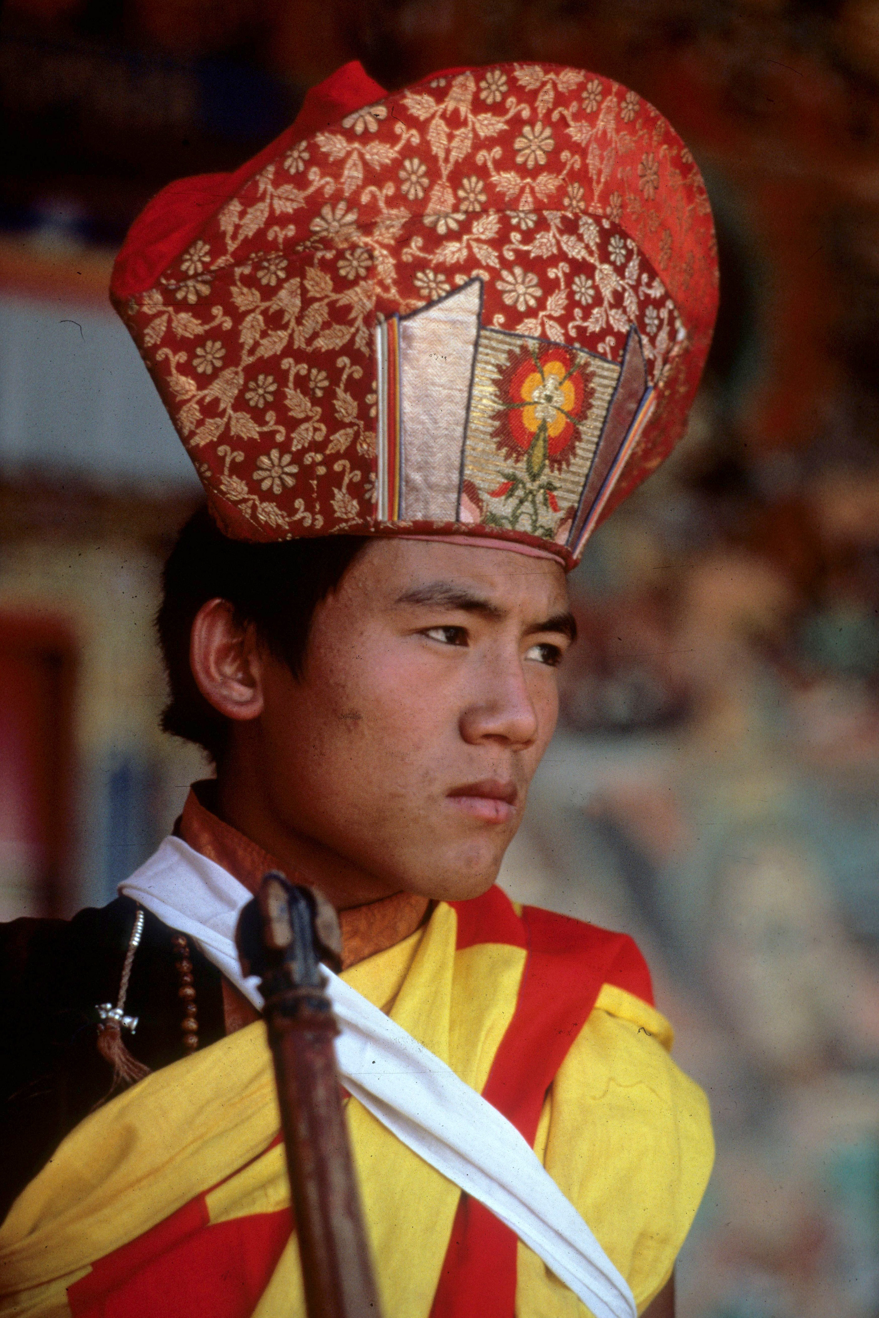 Young monk, wearing a special costume, Desert road in China, July-August 1991, Sikkim, IndiaRomână: Călugăr tânăr îmbrăcat în costum special. Drumul deșertului, iulie-august 1991, Sikkim, India